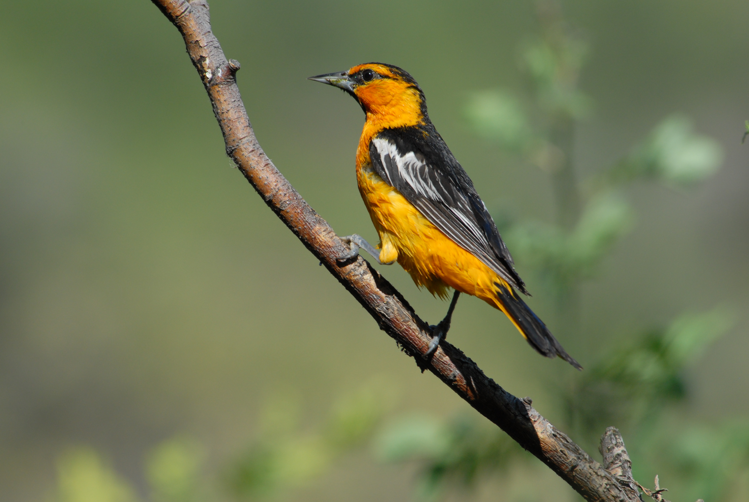 Bullock's Oriole, Icterus bullockii